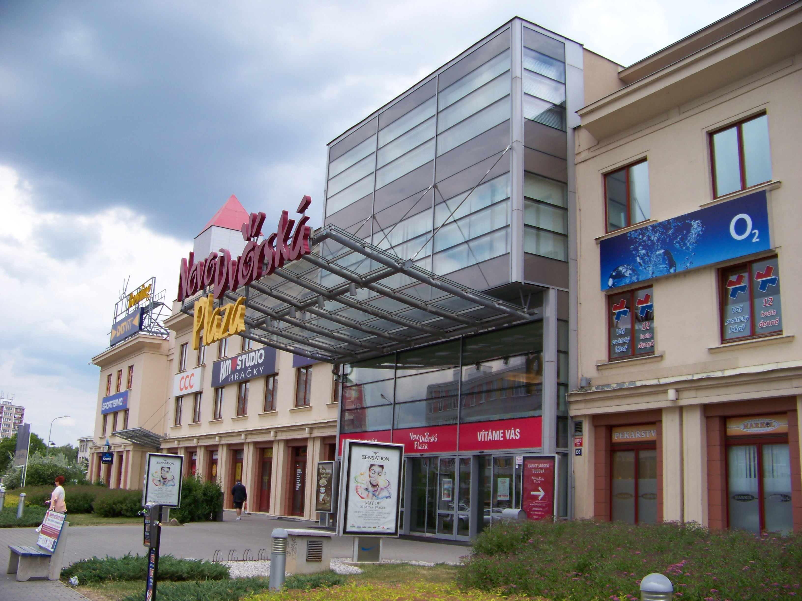 Prague-Braník, the Czech Republic. Novodvorská Housing Estate, Novodvorská Plaza.